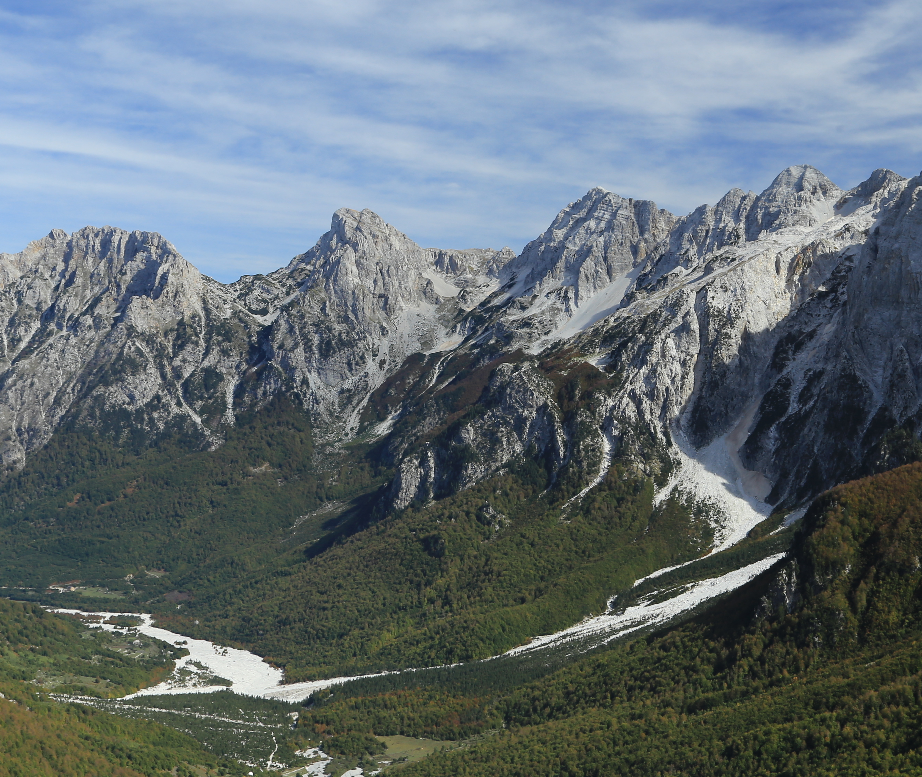 Photo from the Valbonë Valley National Park Taken on the path from Valbona to Theth